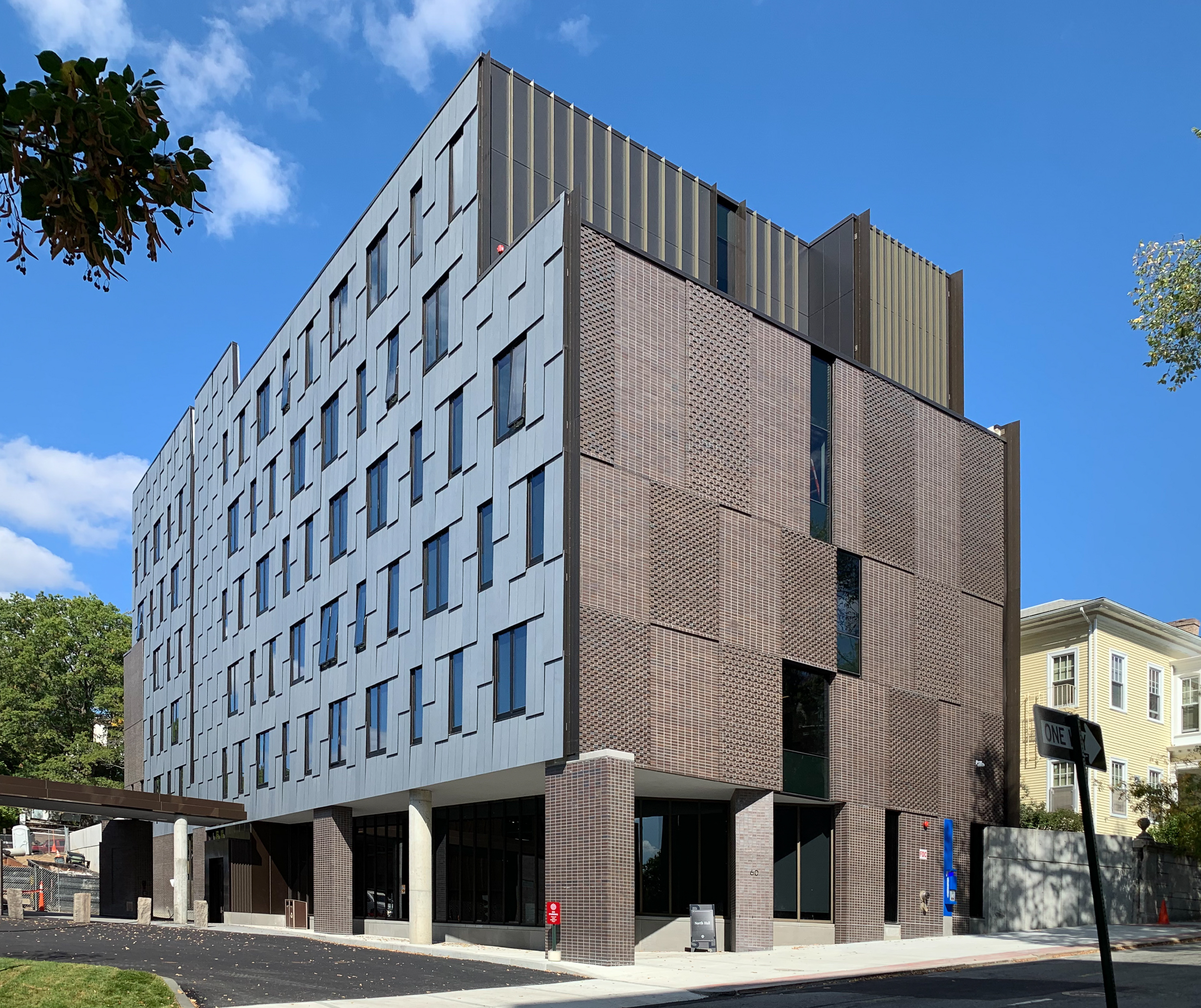 North Hall is a new 41,000 sf residence hall at 60 Waterman Street. Completed 2019. Designed by NADAAA of Boston.